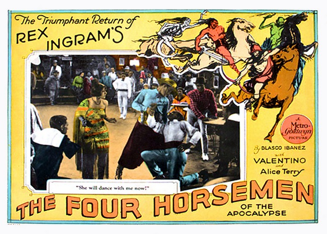 Lobby card for the American film The Four Horsemen of the Apocalypse (1921).